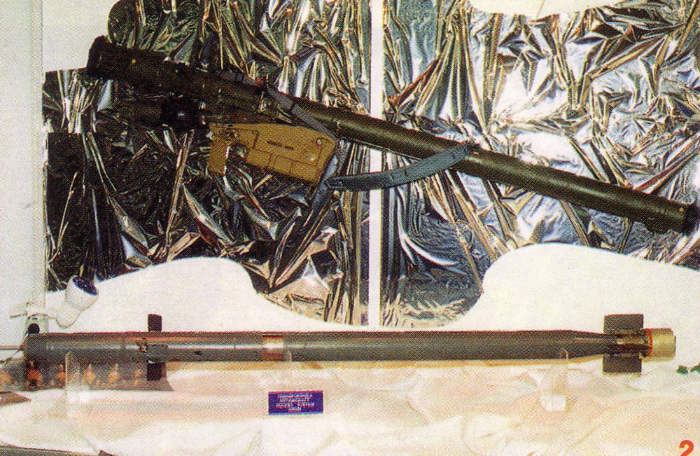 PZR Grom